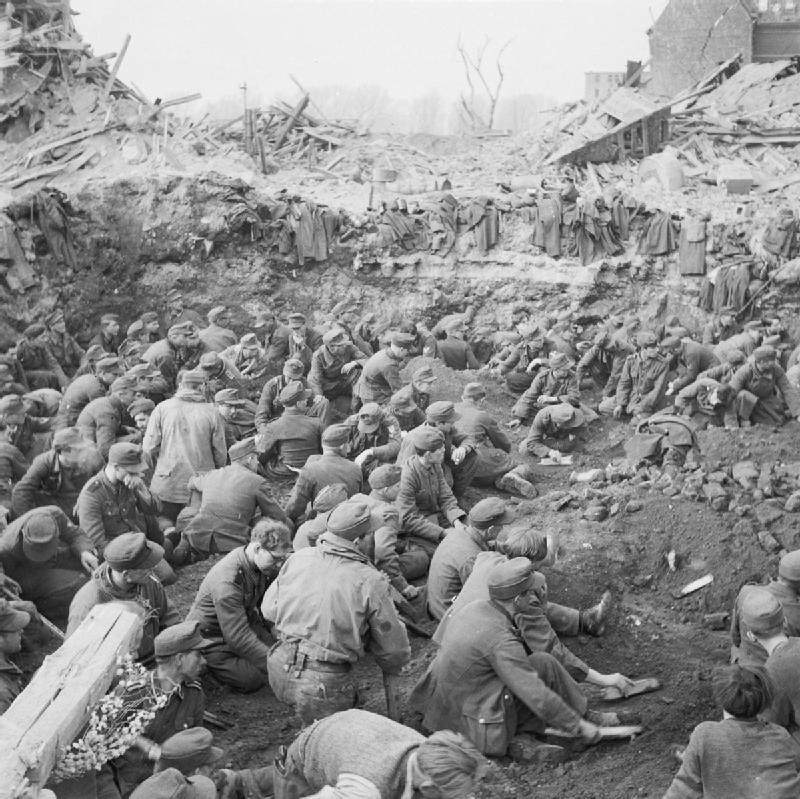 IWM caption : Crossing the Rhine 24 -31 March 1945 : Hundreds of German prisoners of war sitting together in a compound after their units had been overrun in the Allied advance. The large numbers of POWs falling into Allied hands during the final months of the campaign in North-West Europe formed a major administrative problem.